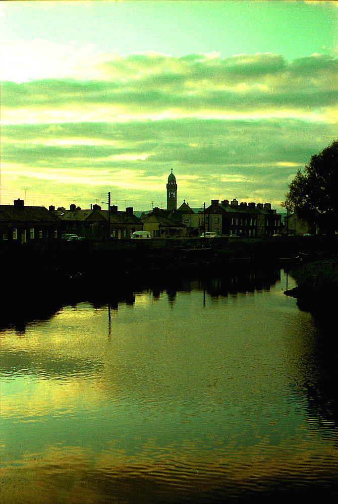 Ag feachaint thar Abhann na Mainistreach ar Oilean an Ri